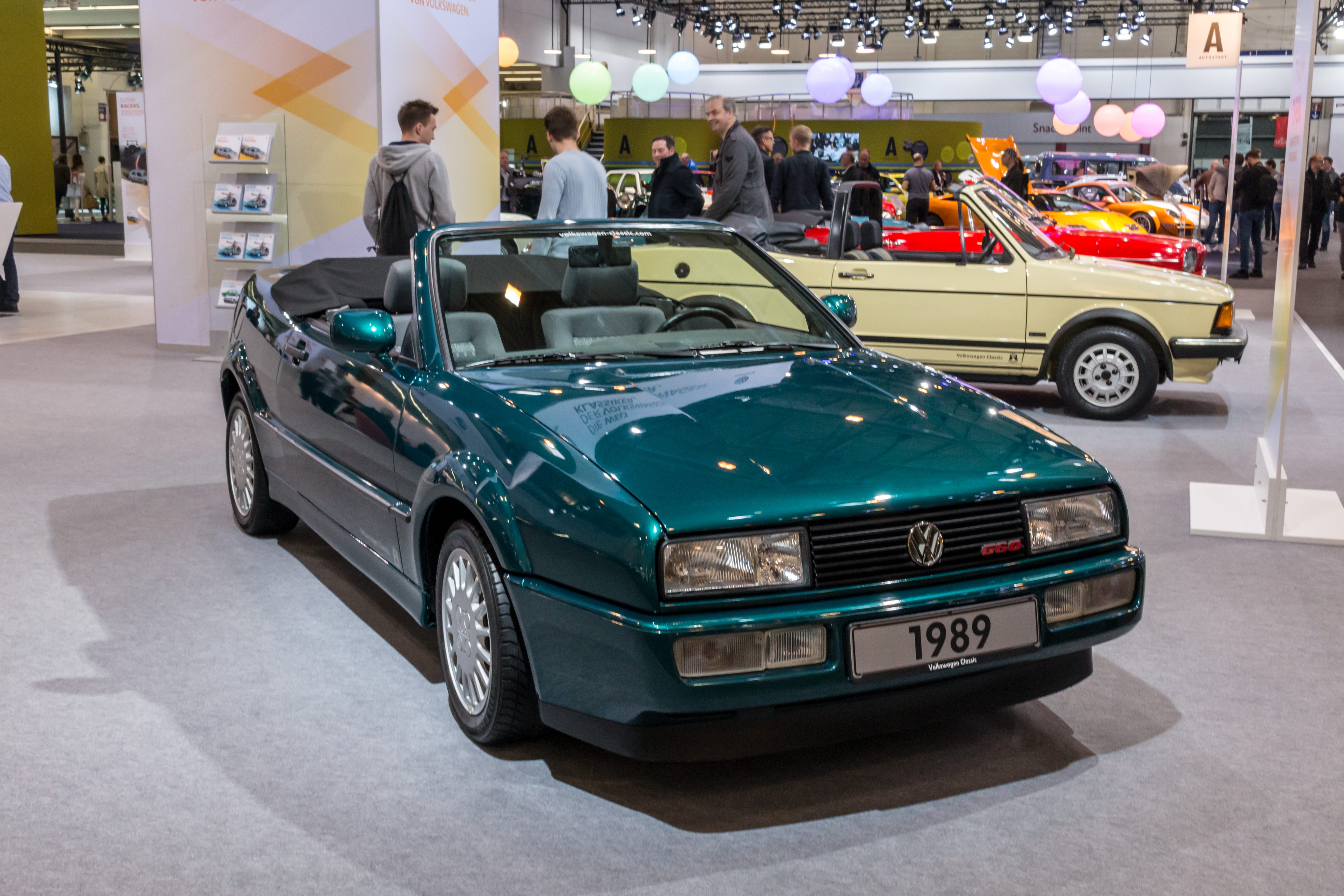 Techno Classica 2018, Essen